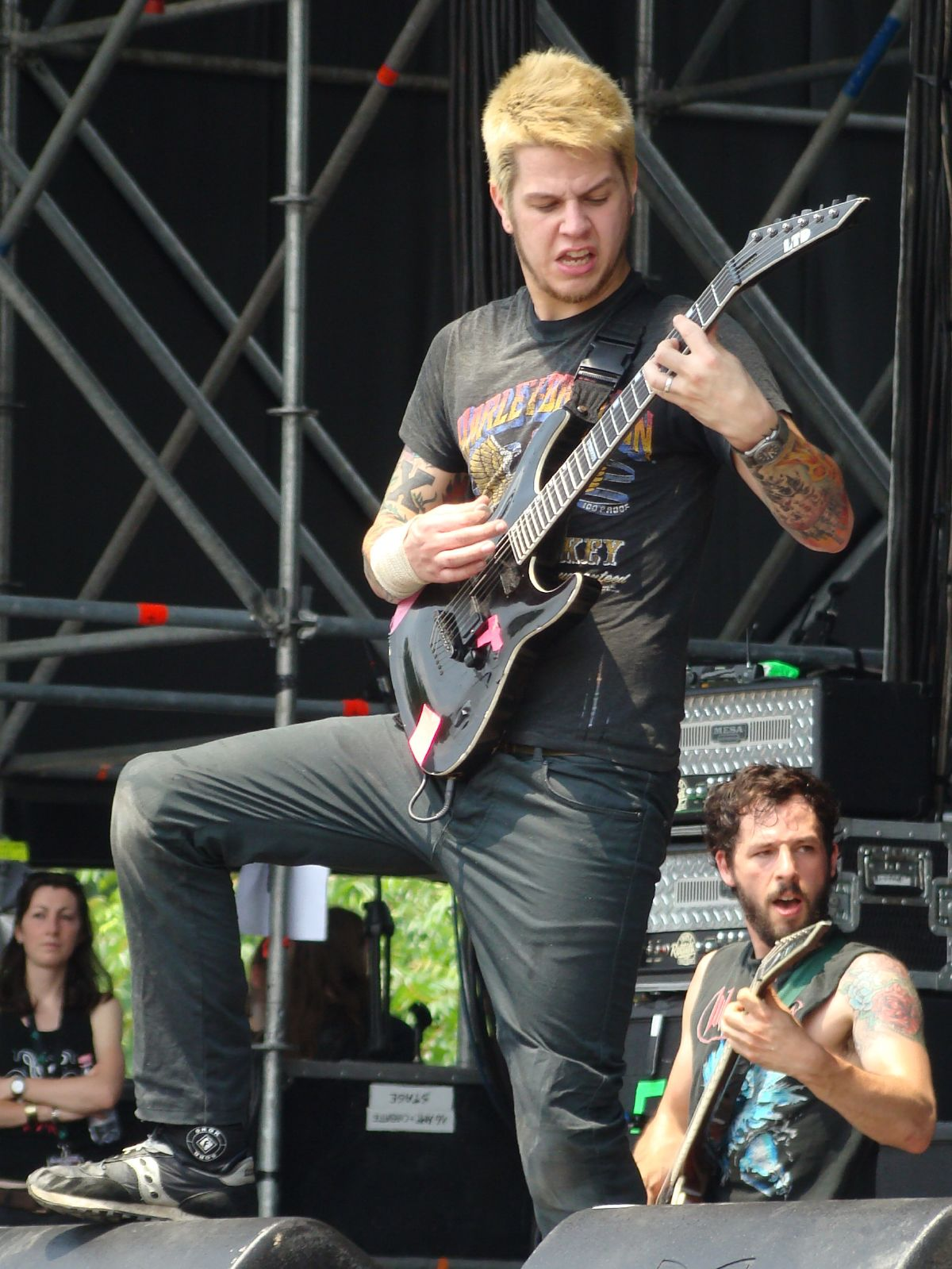 Gods of Metal 2008